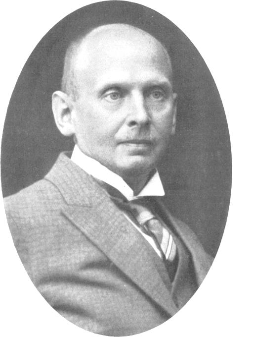 Willy Vorkastner